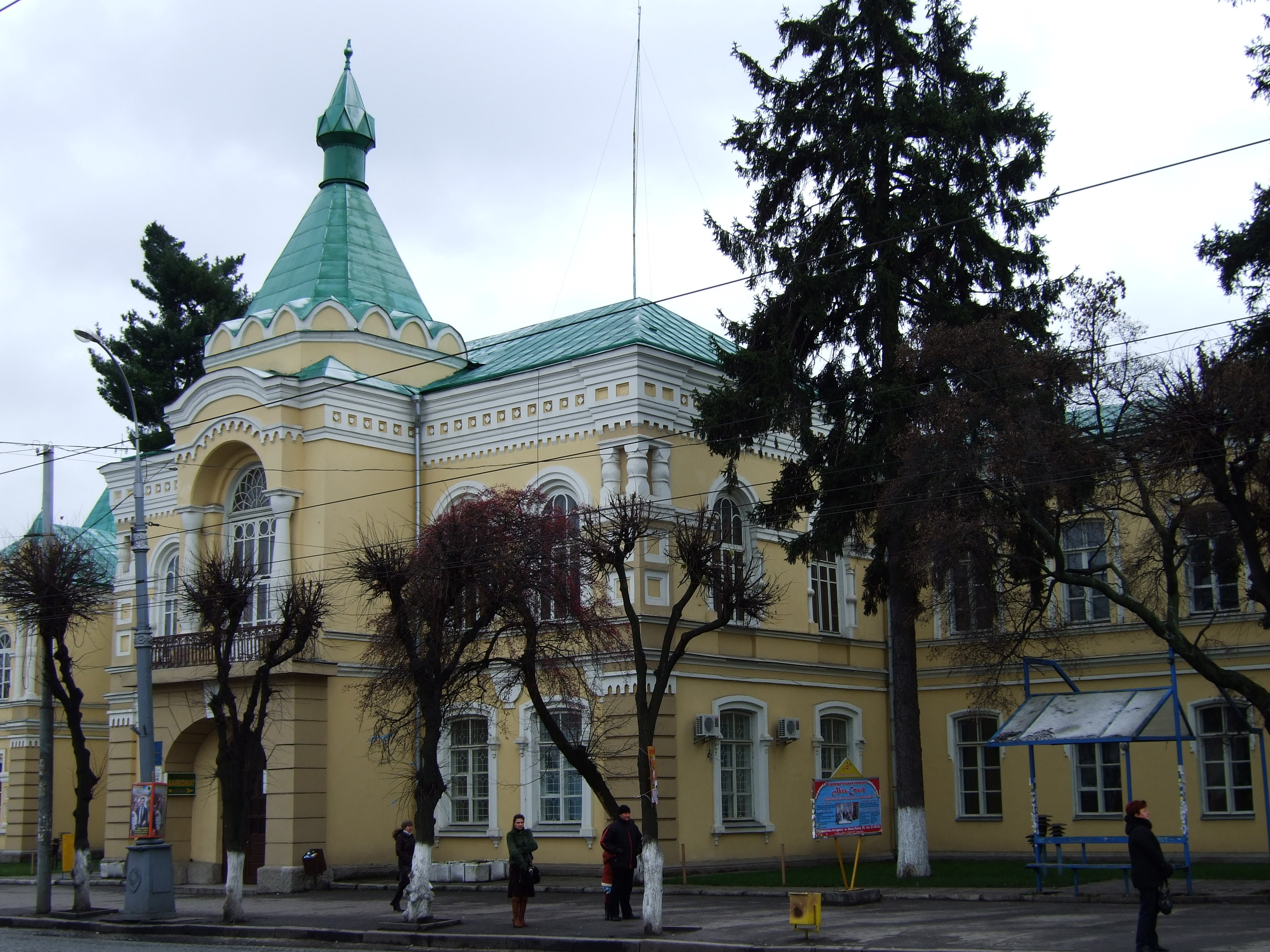 Vinnytsya, Soborna street 87 Secondary school. It was built in 1890 according to the project of Kyiv architect Chekmaryov in the Moscow style with a hipped-roof at the central front. In 1891 a famous Ukrainian writer M.Kotsybinskiy passed exams without attending lectures here. Nowadays Vinnytsya branch of the Trade and Economic National University is situated here.